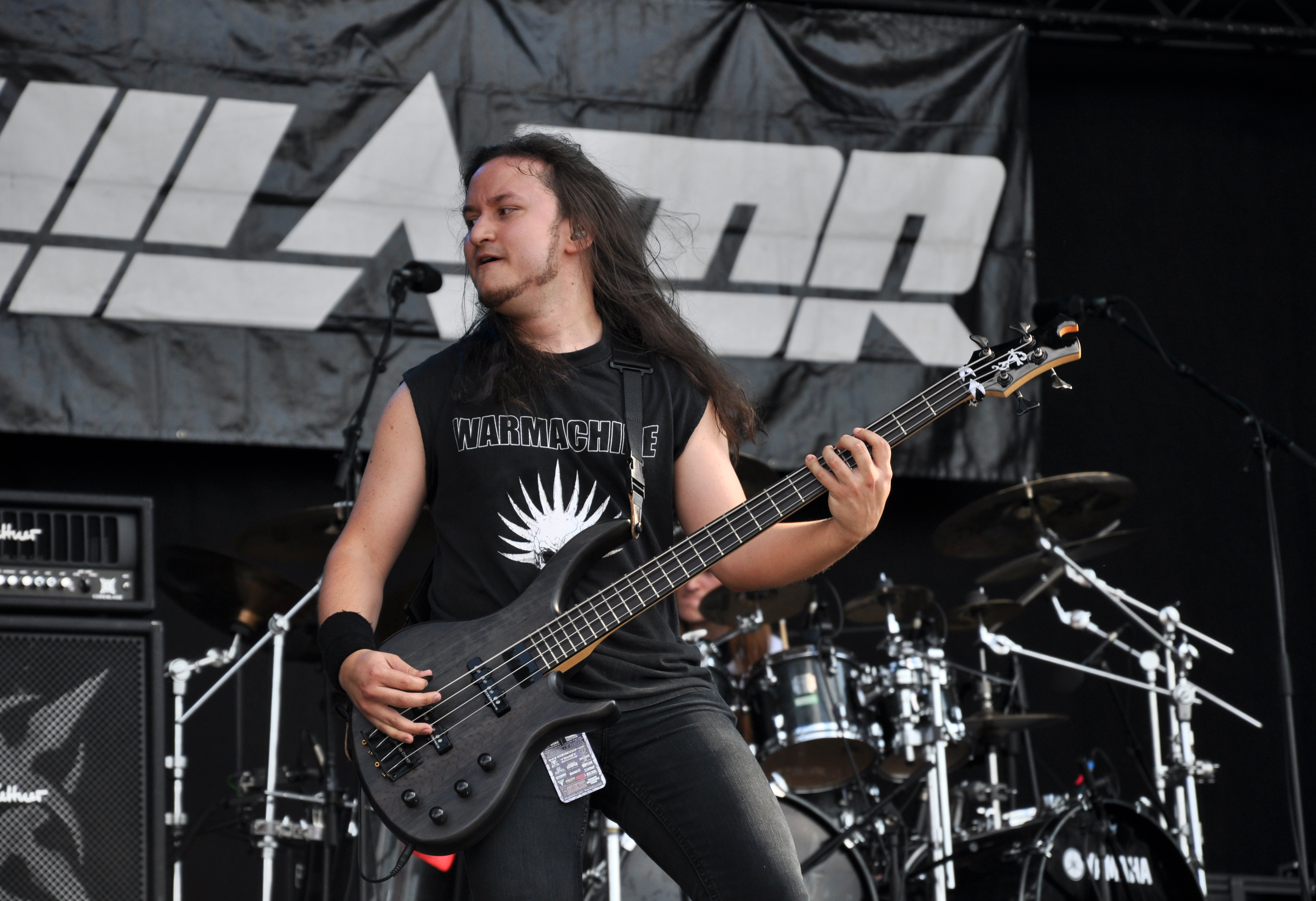 Annihilator at Wacken Open Air 2013